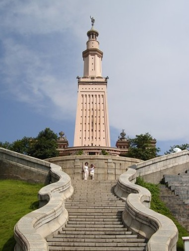 The Lighthouse of Alexandria in the "Window of the World" Cultural Park in Shenzhen, China, 2005.